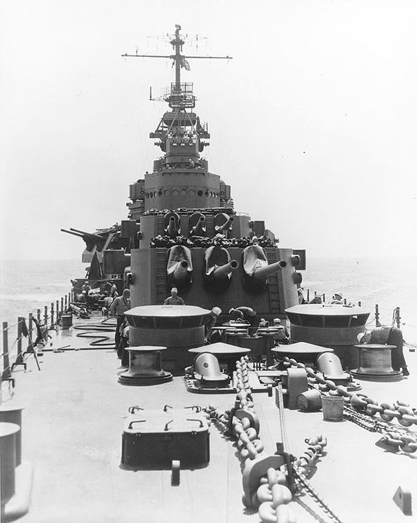 USS Santa Fe (CL-60): View on the foredeck, looking aft from the bow, with crewmembers cleaning the deck and maintaining gear, circa early 1943. Note windlass, anchor chain and triple 6"/47 gun turrets.